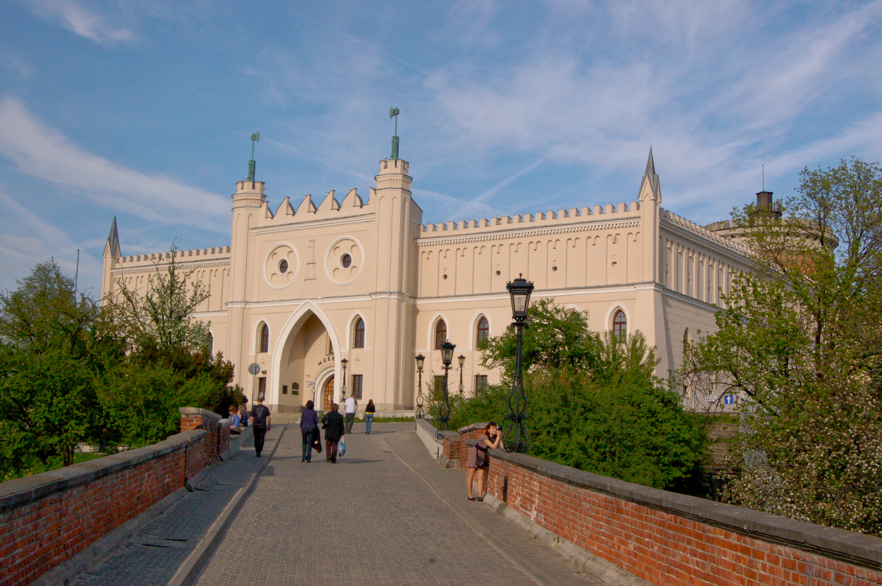 Castle in Lublin